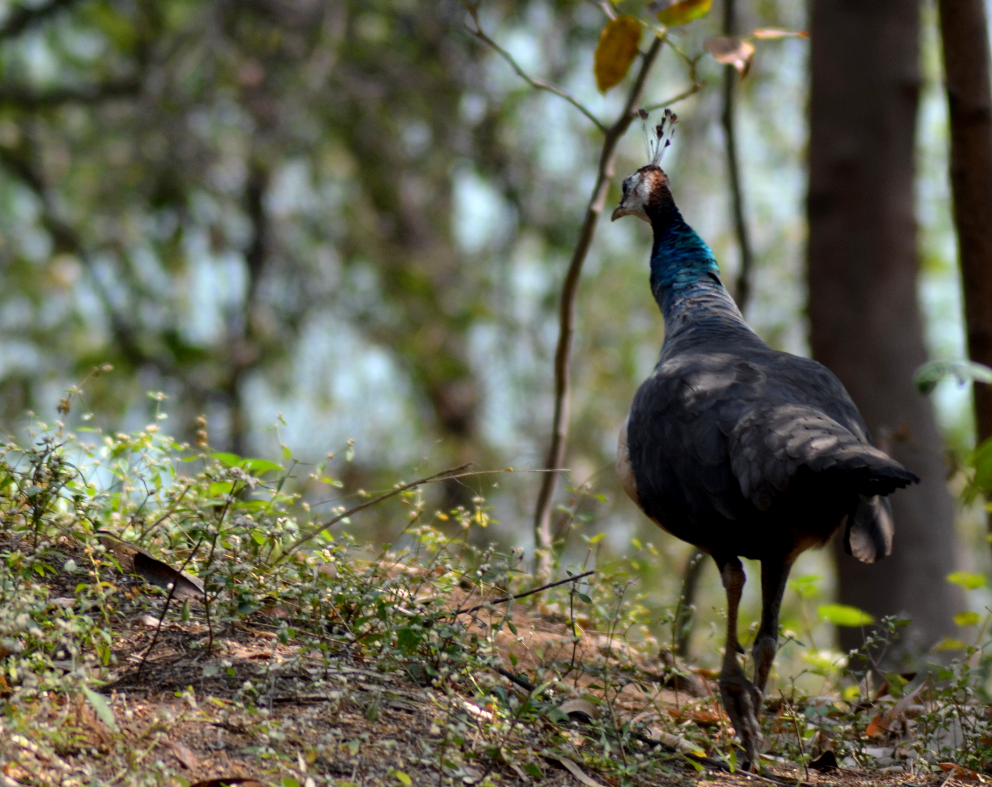 Peacock at The Rajiv Gandhi Zoological Park, commonly known as the Rajiv Gandhi Zoo and Katraj Snake Park, located in Katraj near the city of Pune in India